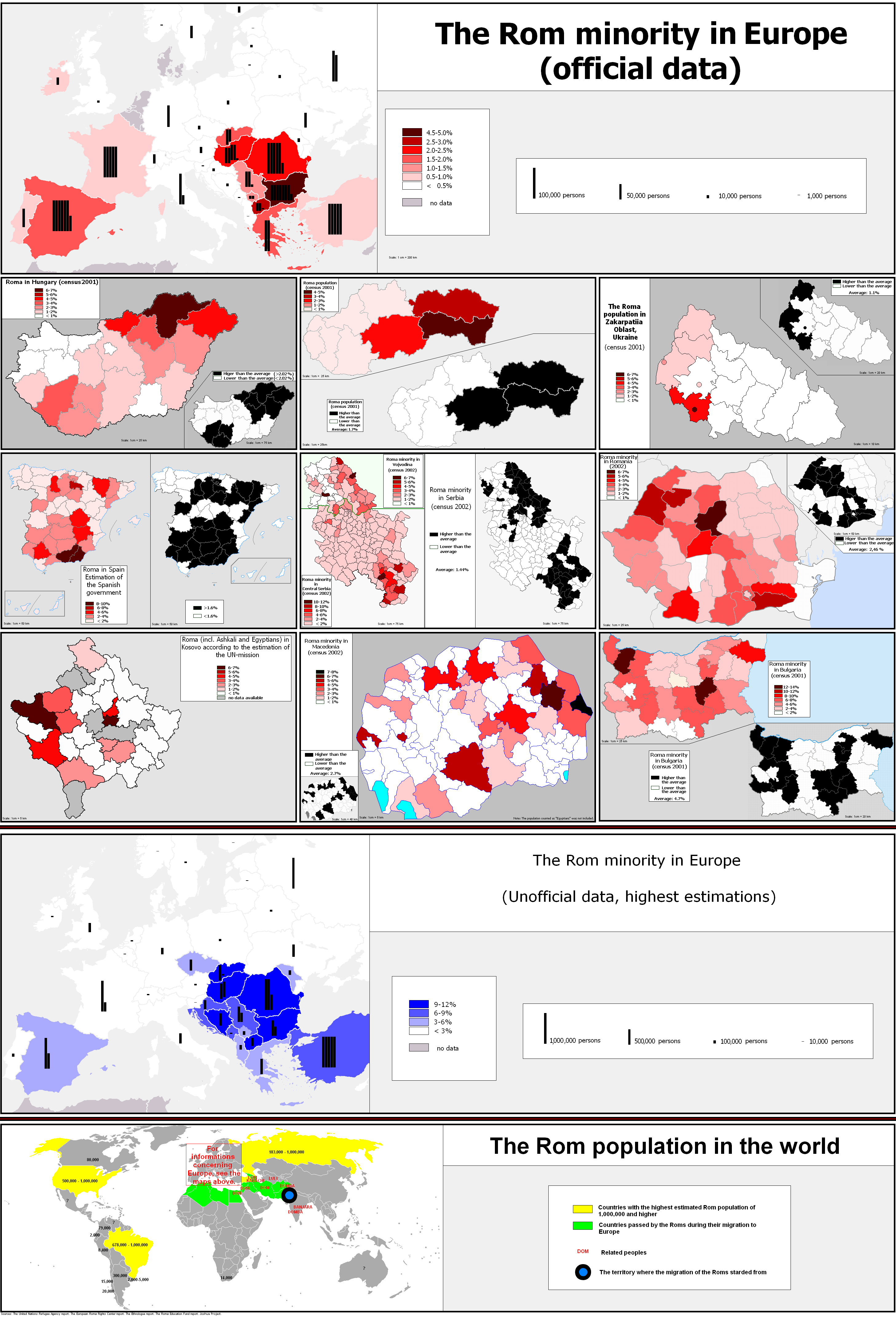 The distribution of the Roma (Gipsies) in the world.